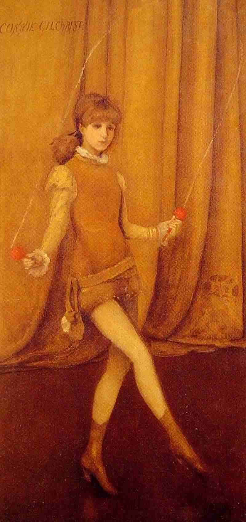 Painting of girl jumping rope